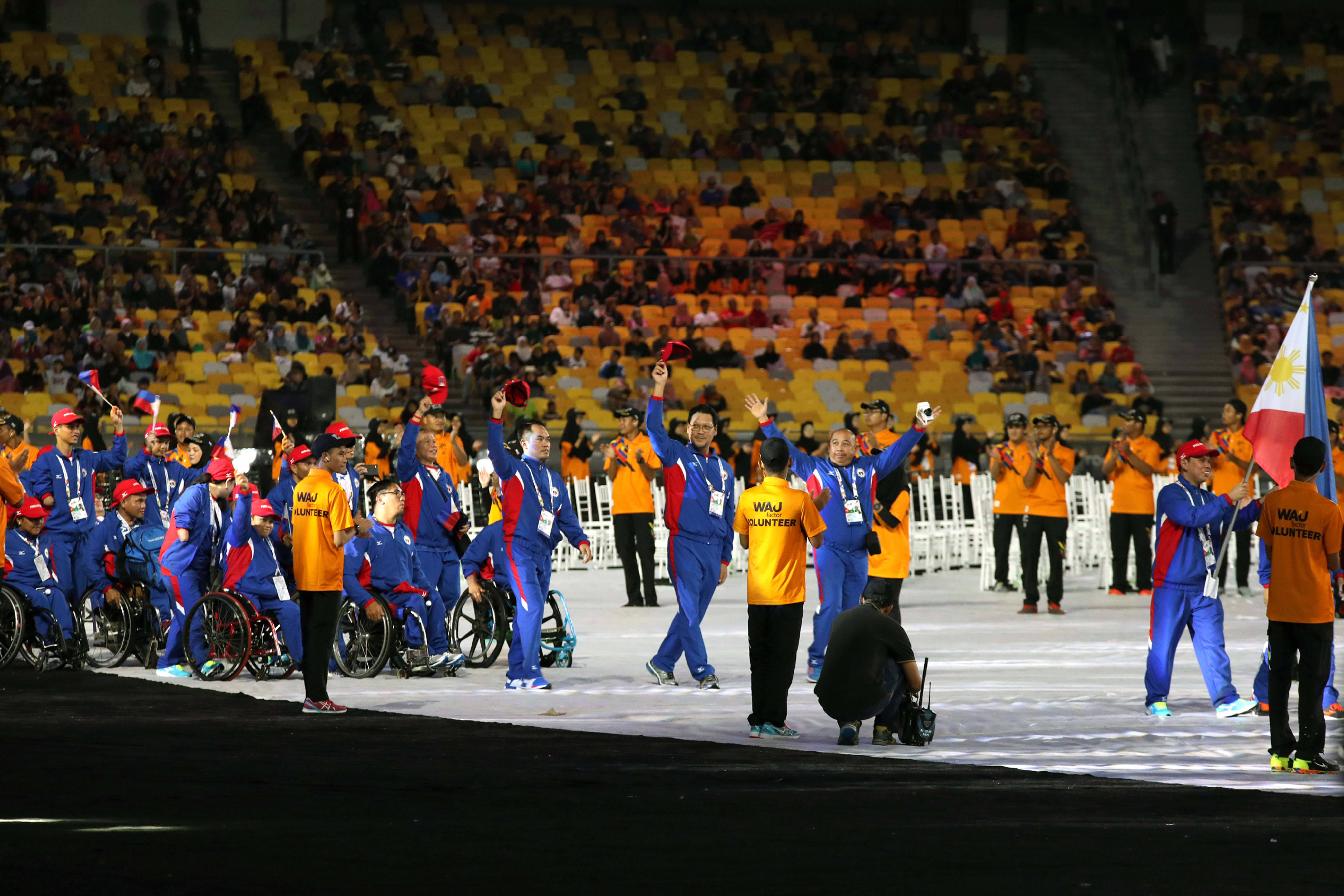 Filipino athletes join the parade at the opening of the 9th ASEAN Para Games held at Bukit Jalil, National Stadium, Kuala Lumpur, Malaysia on Sunday (September 17, 2017). (PNA photo by Joey O. Razon)